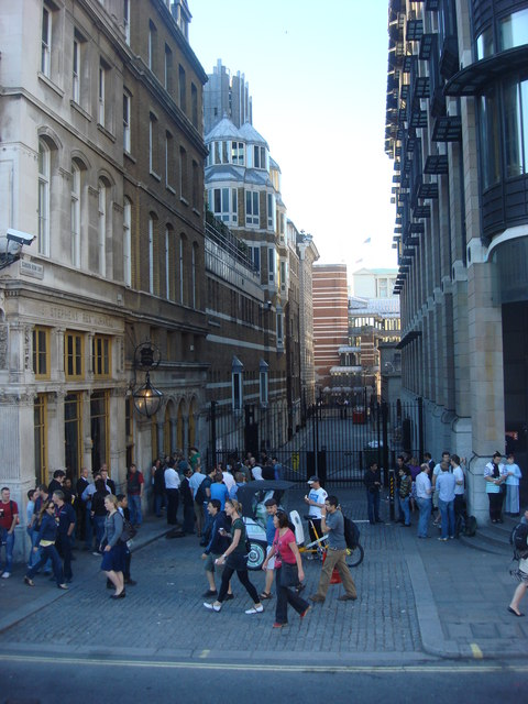 Canon Row